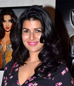 Nimrat Kaur at a calendar launch, 2014.